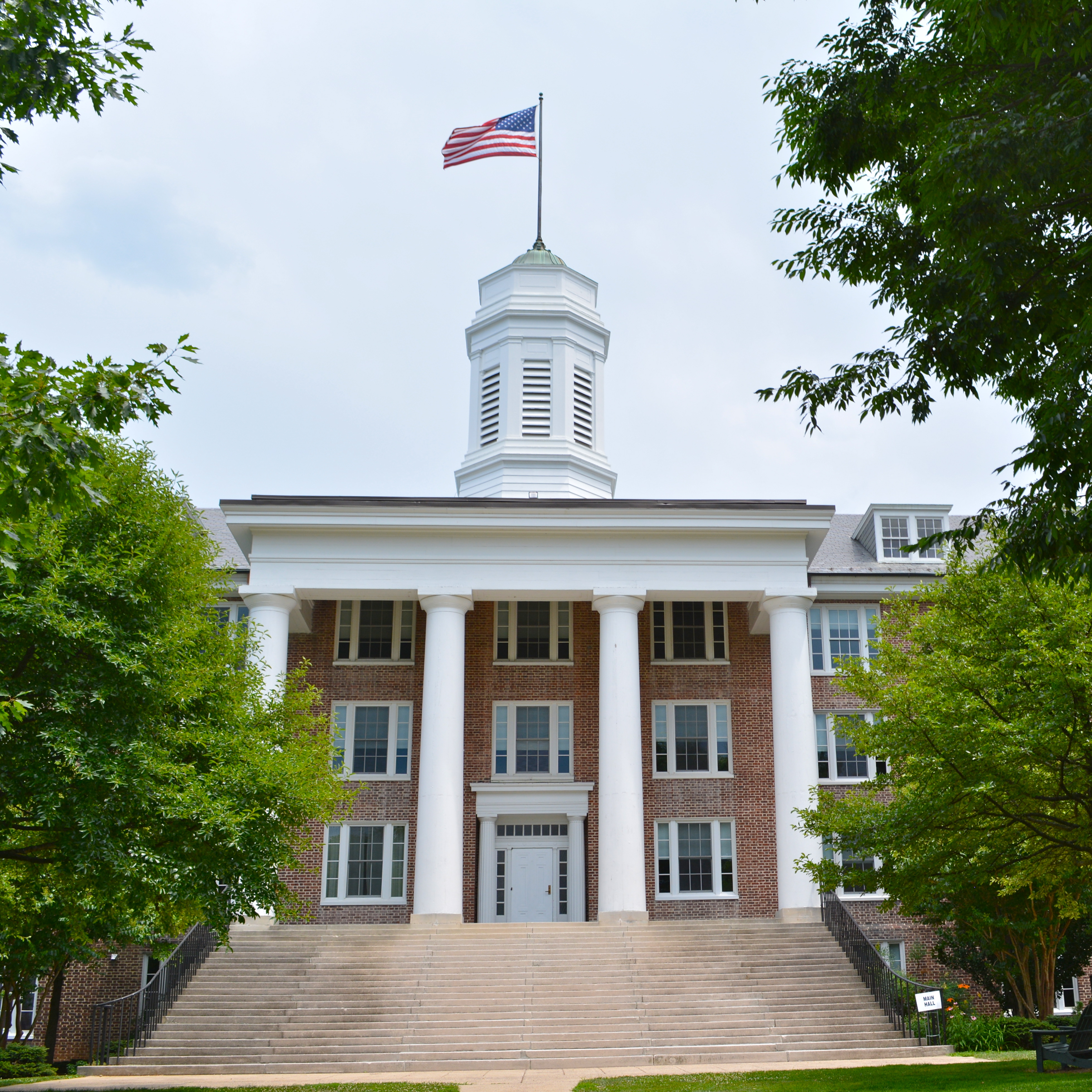 Mercersburg Academy listed on thenrhp on June 21, 1984 (#84003374). On Pennsylvania Route 16, in Mercersburg, Franklin County, Pennsylvania